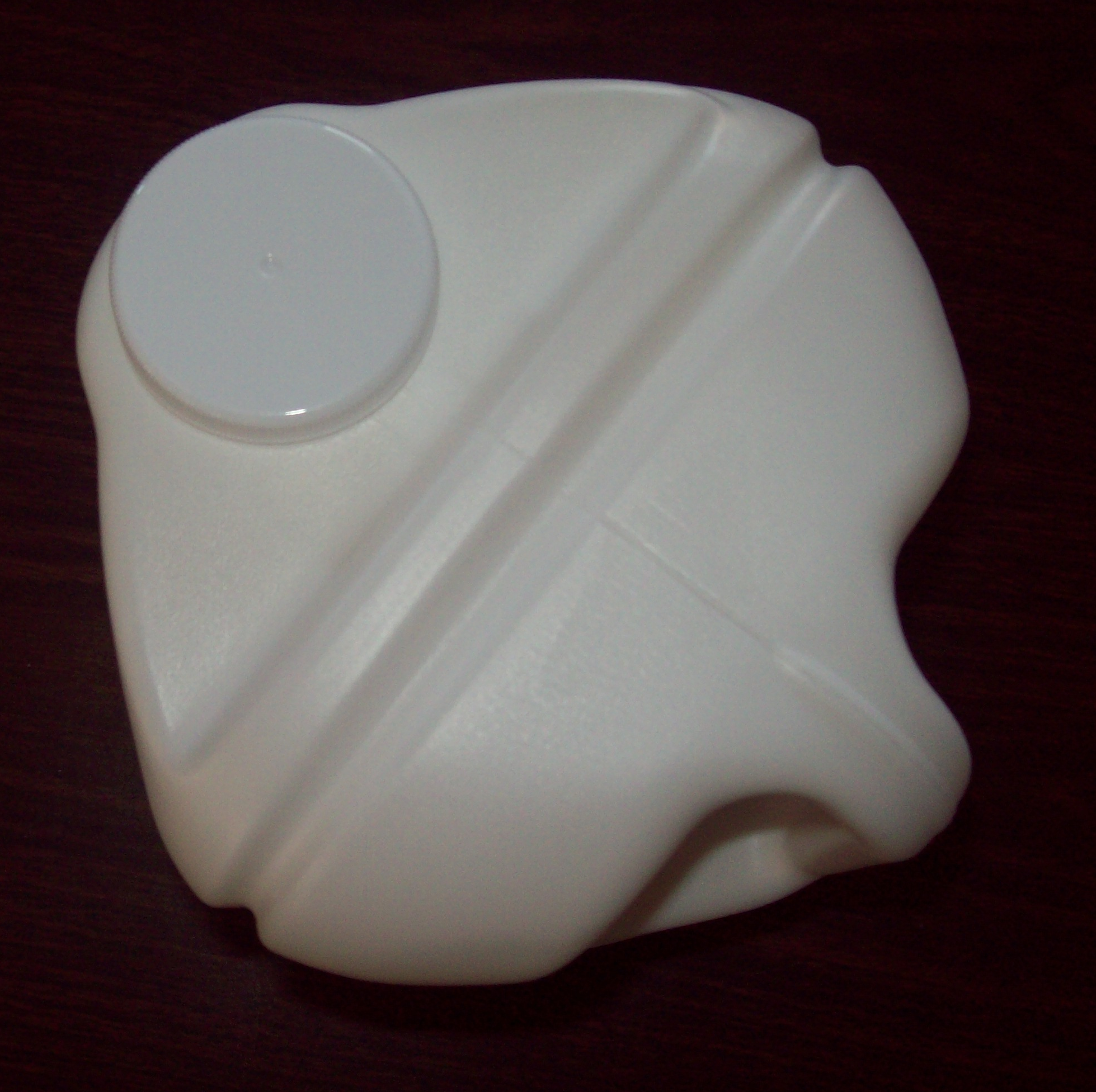 Top view of a square milk jug (cropped)